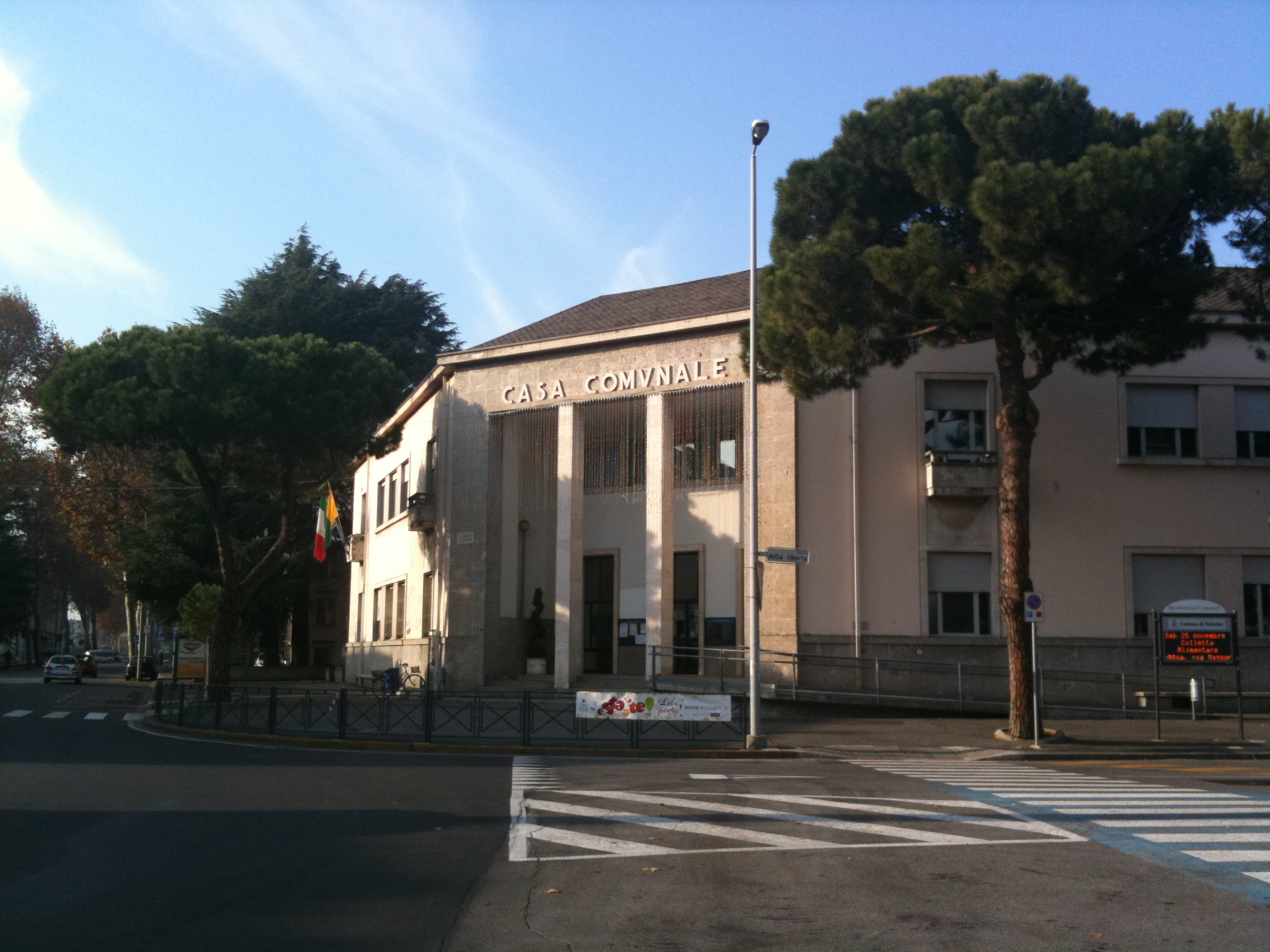 The city hall of Dalmine, in Piazza della Libertà